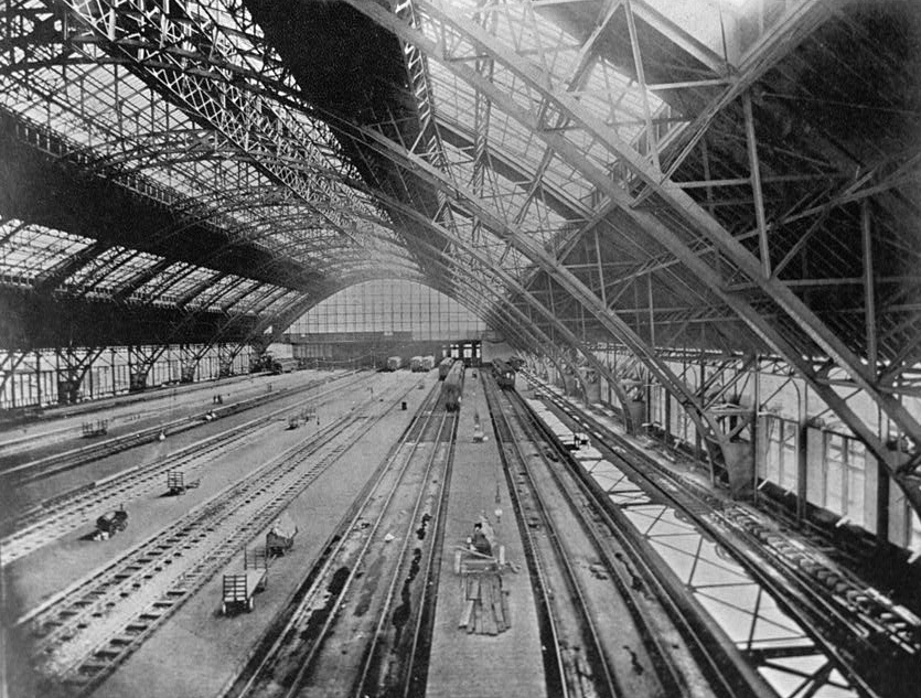 Philadelphia Broad Street Station. Interior of train shed.